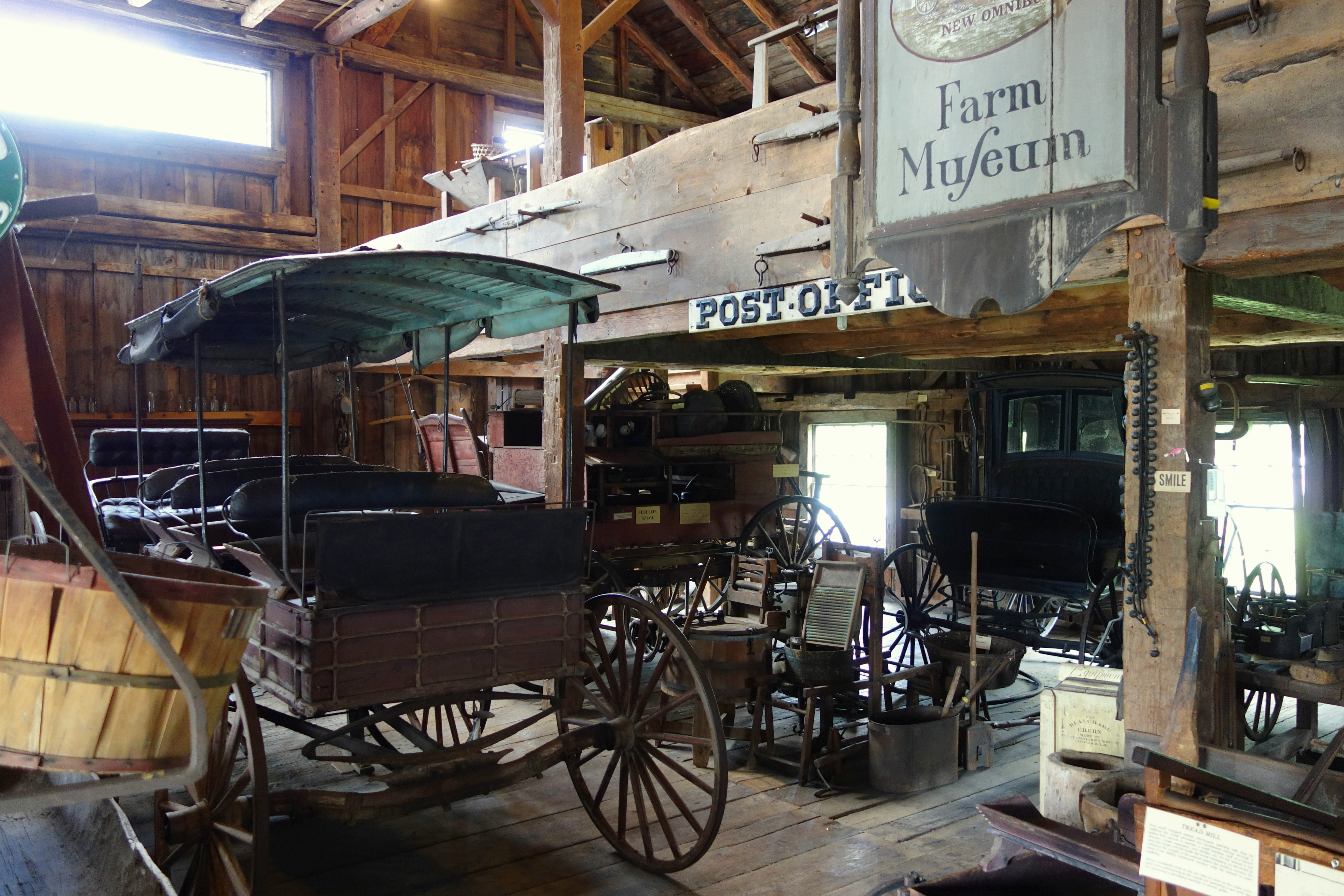 Interior view of the Hadley Farm Museum, Hadley, Massachusetts, USA. The museum allowed photography without restriction.